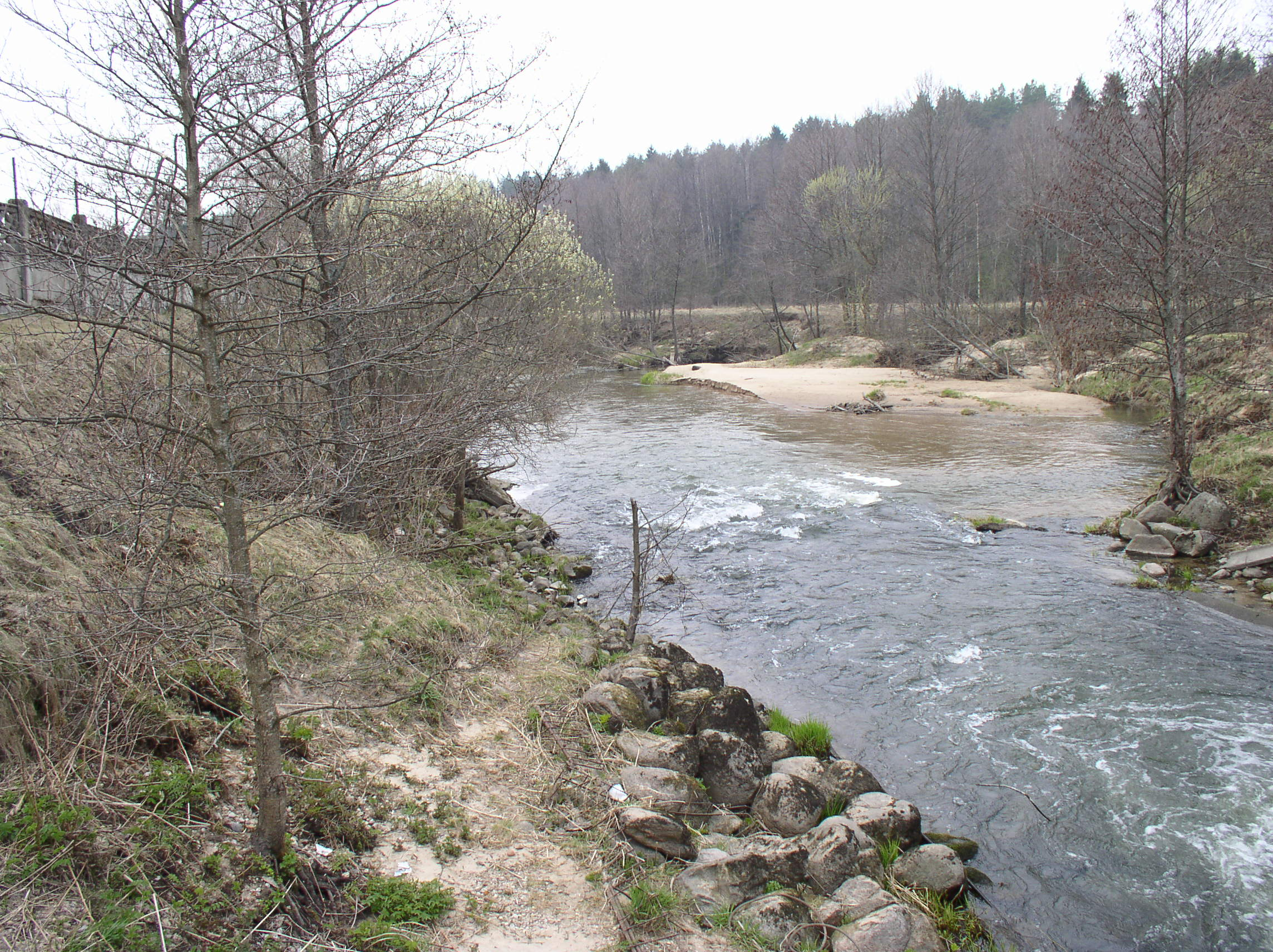 Islach river, Belarus.